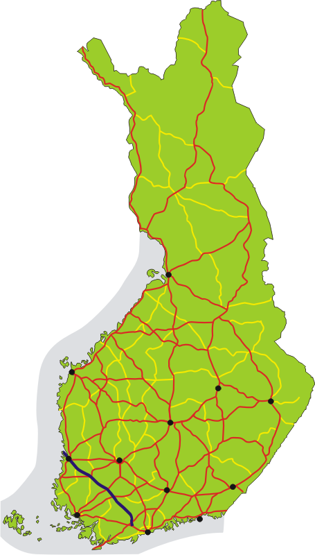 Map of the main road 2 in Finland, shown in dark blue. The other 1st class main roads (numbers 1–29) are red, 2nd class main roads (numbers 40–98) yellow. Black dots show the 12 biggest urban areas.